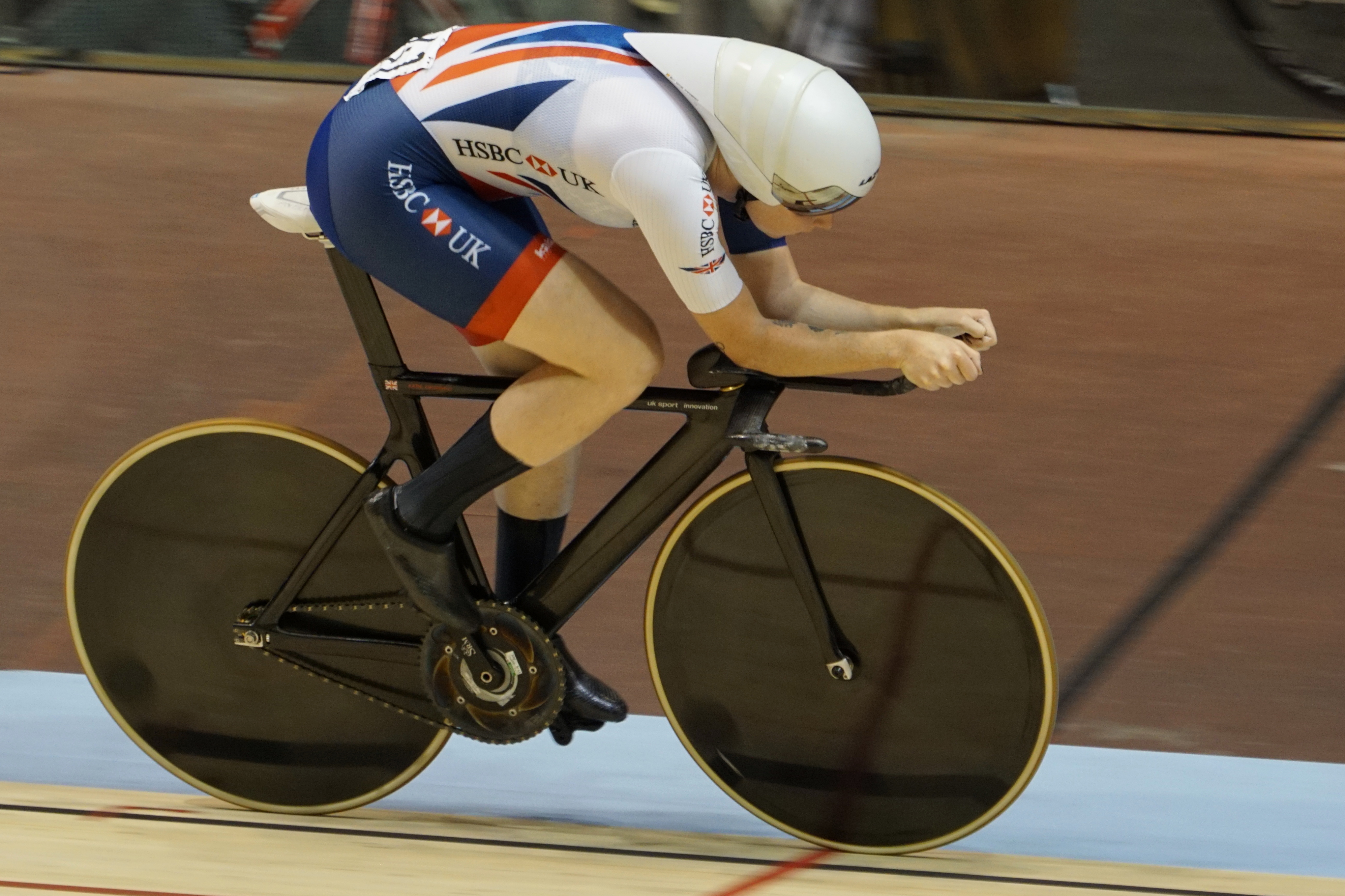 2017 UEC Track Elite European Championships - Women’s Individual Pursuit Final for Gold medal